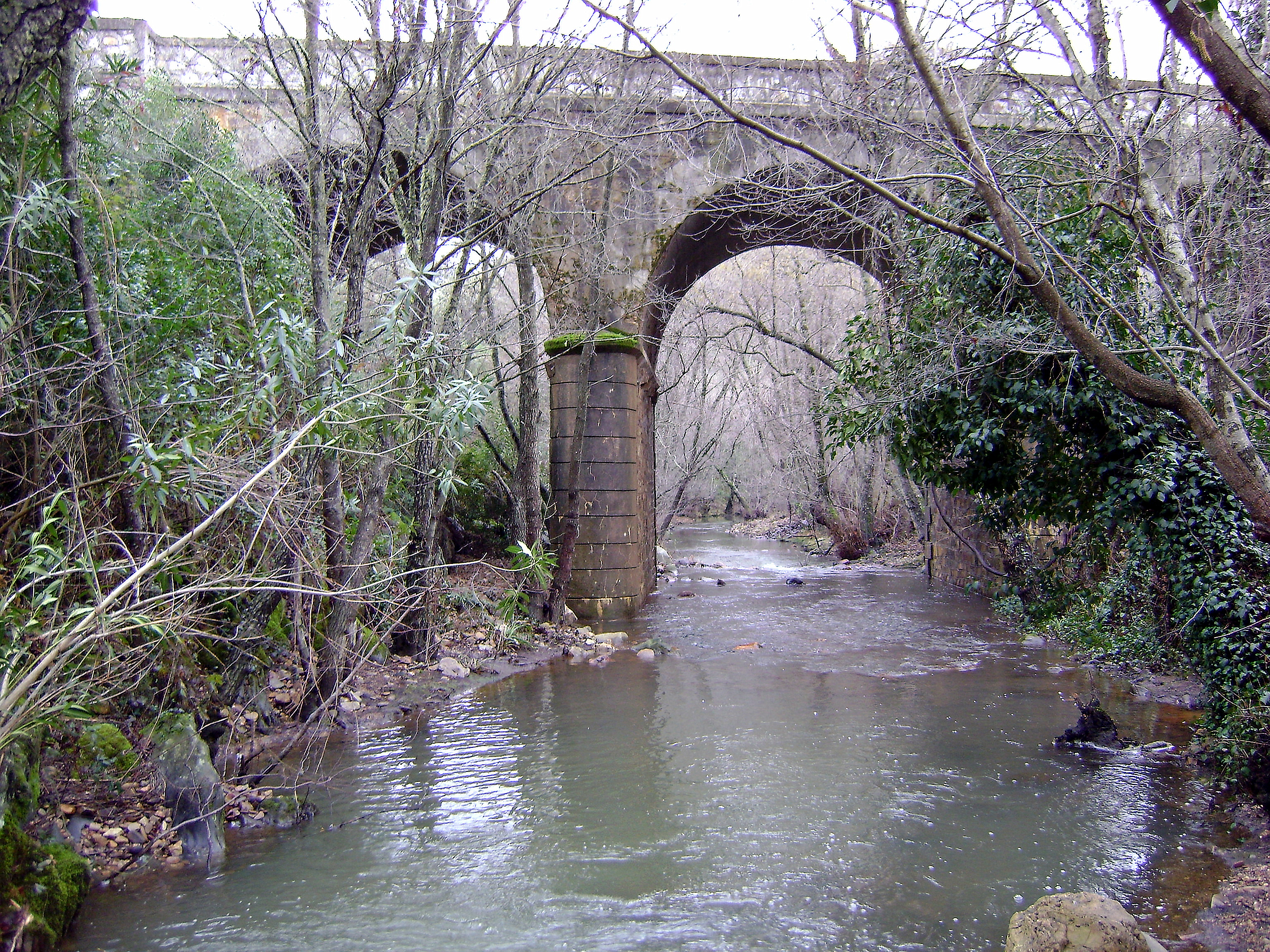 Robledillo river (río Robledillo), in Sierra Madrona, Spain